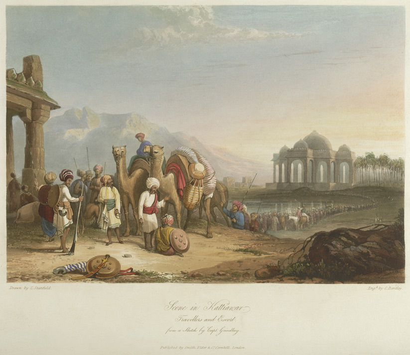 Scene in Kattiawar, Travellers and Escort. Medium: Aquatint, coloured. Grindlay (1786-1877) was only 17 when he arrived in India in 1803. He served with the Bombay Native Infantry from 1804 to 1820 and during this period made a large collection of sketches and drawings. Kathiawar in Gujarat falls between the Gulf of Kachch and the Gulf of Khambat (Cambay) and was part of the Bombay Presidency. Of the scene represented here Grindlay writes: "The progress of their caravans when in motion, and their motley appearance when bivouacked for the night's halt are strikingly picturesque ... the varied figures of the mercantile travellers and their wild military escort, offer some of the richest subjects for the pencil that can be imagined."